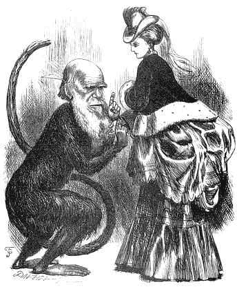 First published in Fun, Nov 1872. Original caption: That Troubles Our Monkey Again - female descendant of Marine Ascidian: "Darwin, say what you like about man; but I wish you would leave my emotions alone".